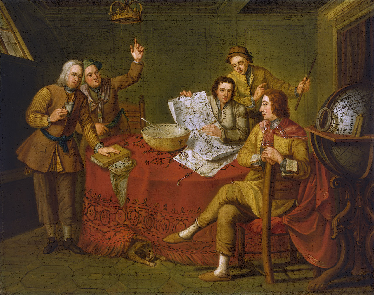 A copy of a conversation piece by Nazari featuring Gustavus Hamilton, Lord Boyne, and a group of his friends in the cabin of their ship, while sailing from Venice to Lisbon. Boyne was making the Grand Tour during this time. Boyne is seated on the left of the painting, seen sitting sideways in full-length. With him are believed to be the third Earl of Carlisle, with white hair standing to the left and holding a drinking mug in his left hand. Behind him is the master of the ship. Sir Francis Dashwood stands to the right, and behind him is another figure, possibly Lord Middlesex. A cat emerges from under the table, indicated by Boyne's foot. The Earl of Carlisle's right hand rests on a volume of 'Don Quixote', while the master points to a crown compass hanging from the deckhead. Dashwood points to a chart showing the Straits of Bonifacio, the route the ship will follow. Lord Middlesex holds a shepherd's pipe. The table is covered with a Turkey cloth, and has a large bowl of punch.